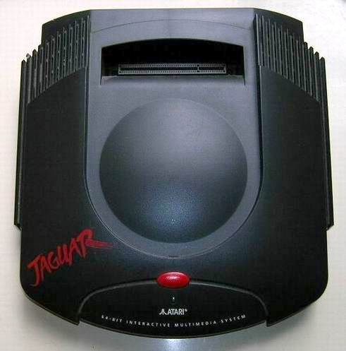 Atari jaguar game console. Picture by SanderK.